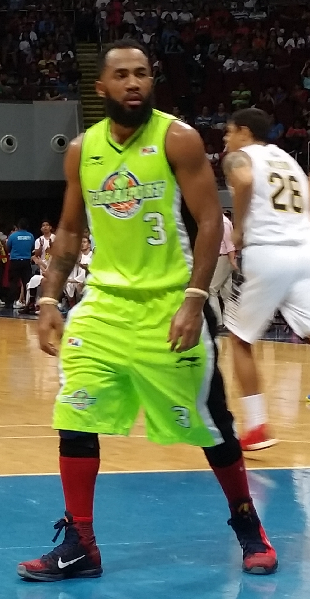 PBA - Globalport vs Barako Bull - Stanley Pringle-GlobalPort - 2015-1225